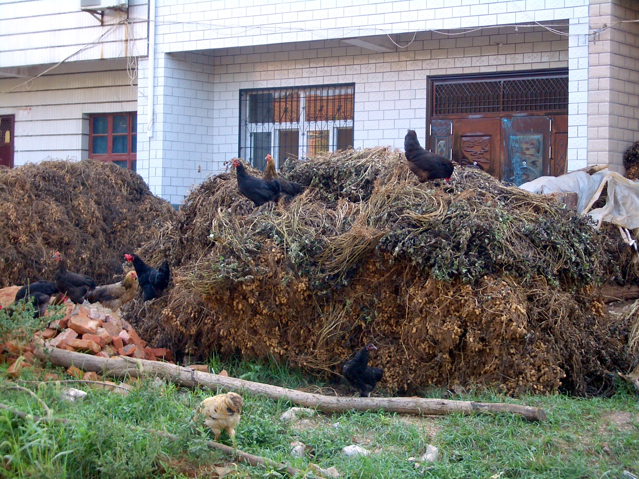 Recently harvested peanut plants stacked by a village house in the southern Jiangxia District, City of Wuhan